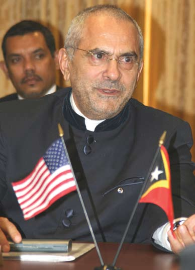 East Timor President José Ramos-Horta speaks during a meeting with Acting USAID Administrator Alonzo Fulgham Feb. 24, 2009.